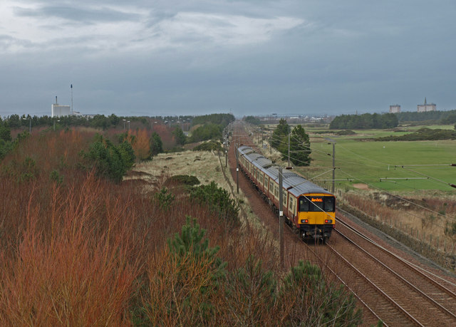 Railway, Irvine Ayr/Glasgow line. Irvine in the distance, Glasgow Gailes golf course on the right. Good colour in a dull day!